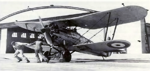 Starting an aircraft's engine by swinging the propeller was a dangerous procedure which caused many injuries and a few fatalities among ground crew. In this case a Bristol Bulldog is being started up at Point Cook. The risk was reduced by using a mechanical device called the 'Hucks Starter'.